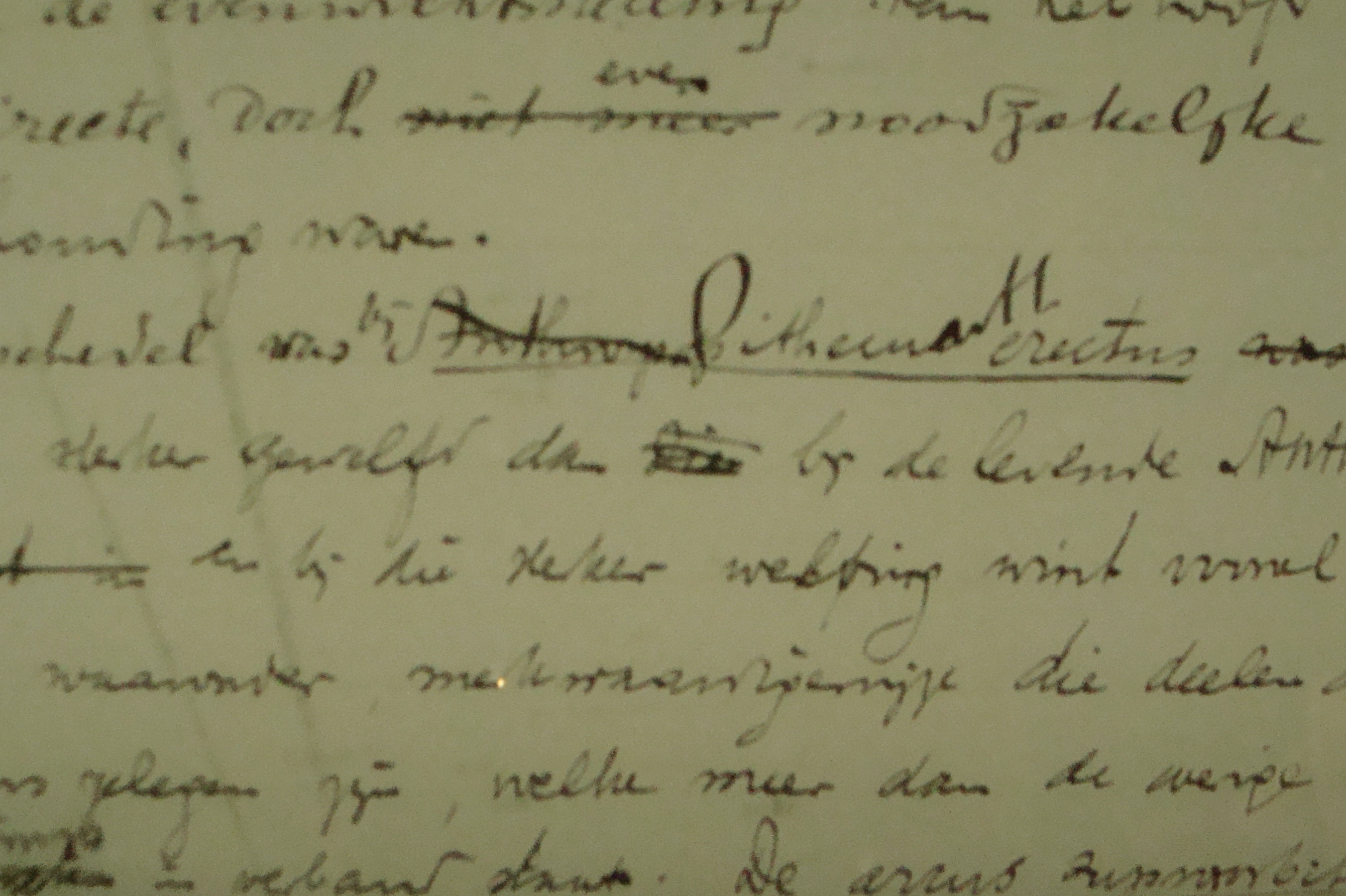 Fragment of the manuscript in which Eugene Dubois introduces the name 'ape-man'. It was on display at the exhibition 'Dubois' in the National Museum of Natural History 'Naturalis' in Leiden, the Netherlands. Dutch anatomist Eugene Dubois had been fascinated with Charles Darwin's theories of evolution, so set out to find an early human.(1890s) He first described the species as Pithecanthropus erectus ("upright ape-man"), based on a calotte (skullcap) and a modern-looking femur found from the bank of the Solo River at Trinil, in central Java. (This species is now regarded as Homo erectus.) His find is commonly referred to as Java Man.